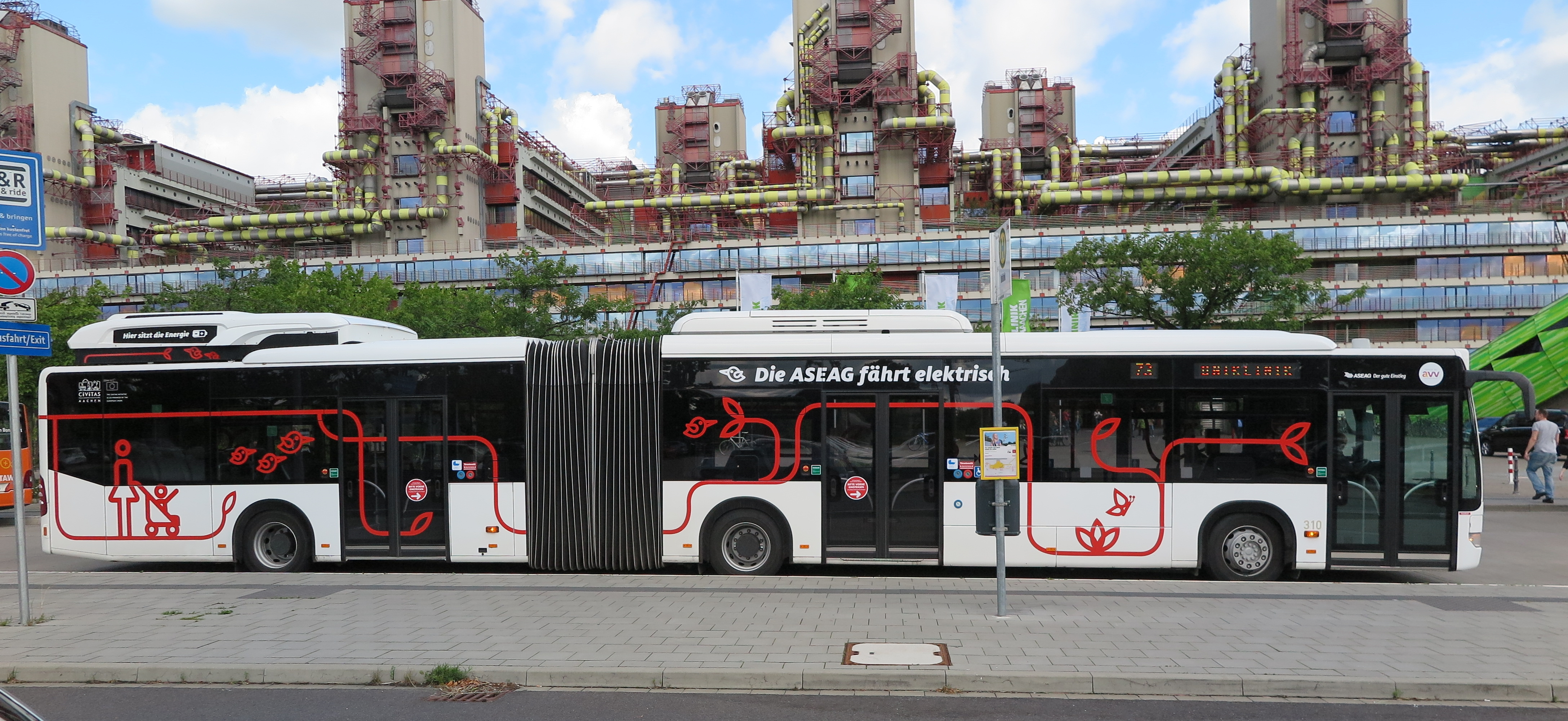 The first electromobil used articulated bus in regular service of ASEAG as bus line 73 (University Hospital – Aachen-Rothe Erde station) at the bus stop H.4 University Hospital Aachen. The Mercedes-Benz Citaro articulated bus was rebuilt as part of the EU project Civitas (Cleaner and better transport in cities) by ASEAG and their partners from a hybrid electric bus to a battery electric bus.